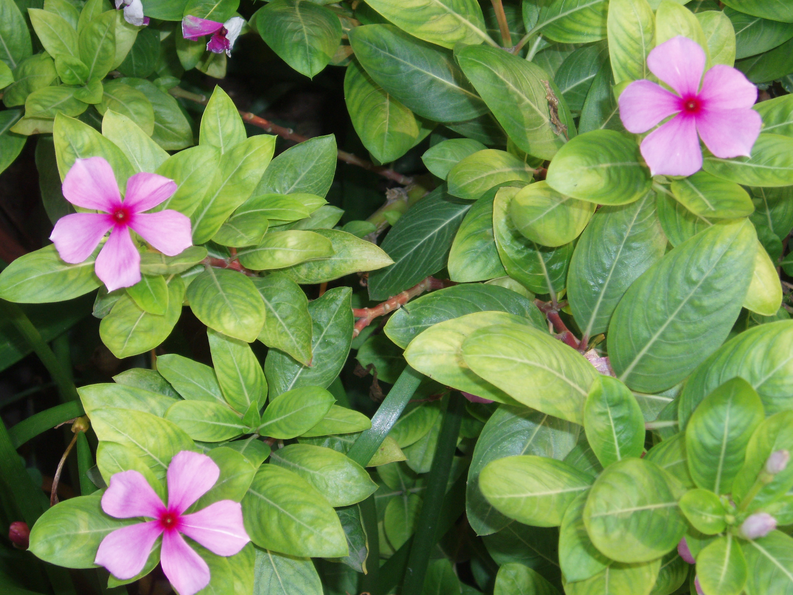 Vinca flowers